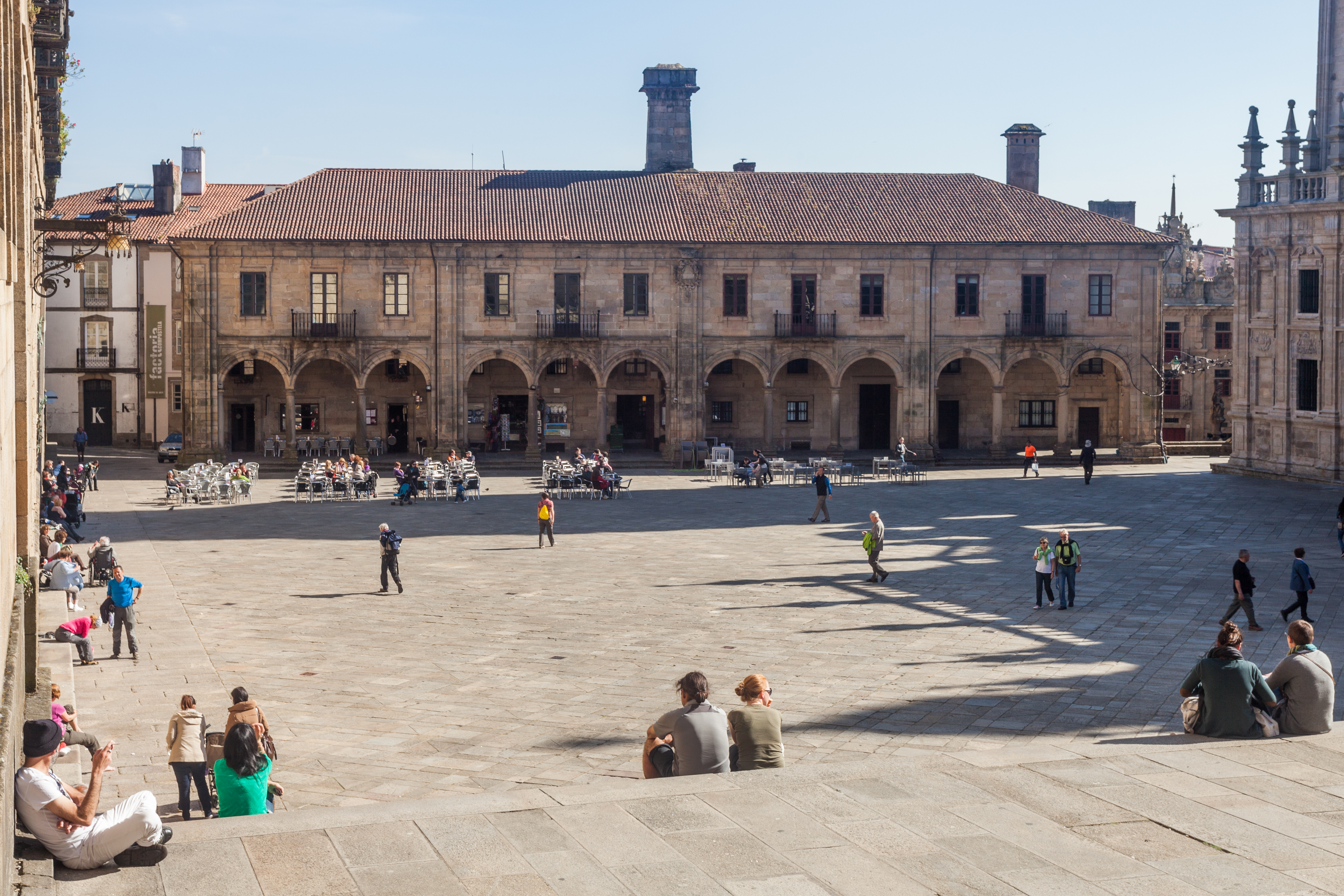 A Conga house (by Domingo de Andrade in 1709), Quintana square, Santiago de Compostela, Galicia (Spain).